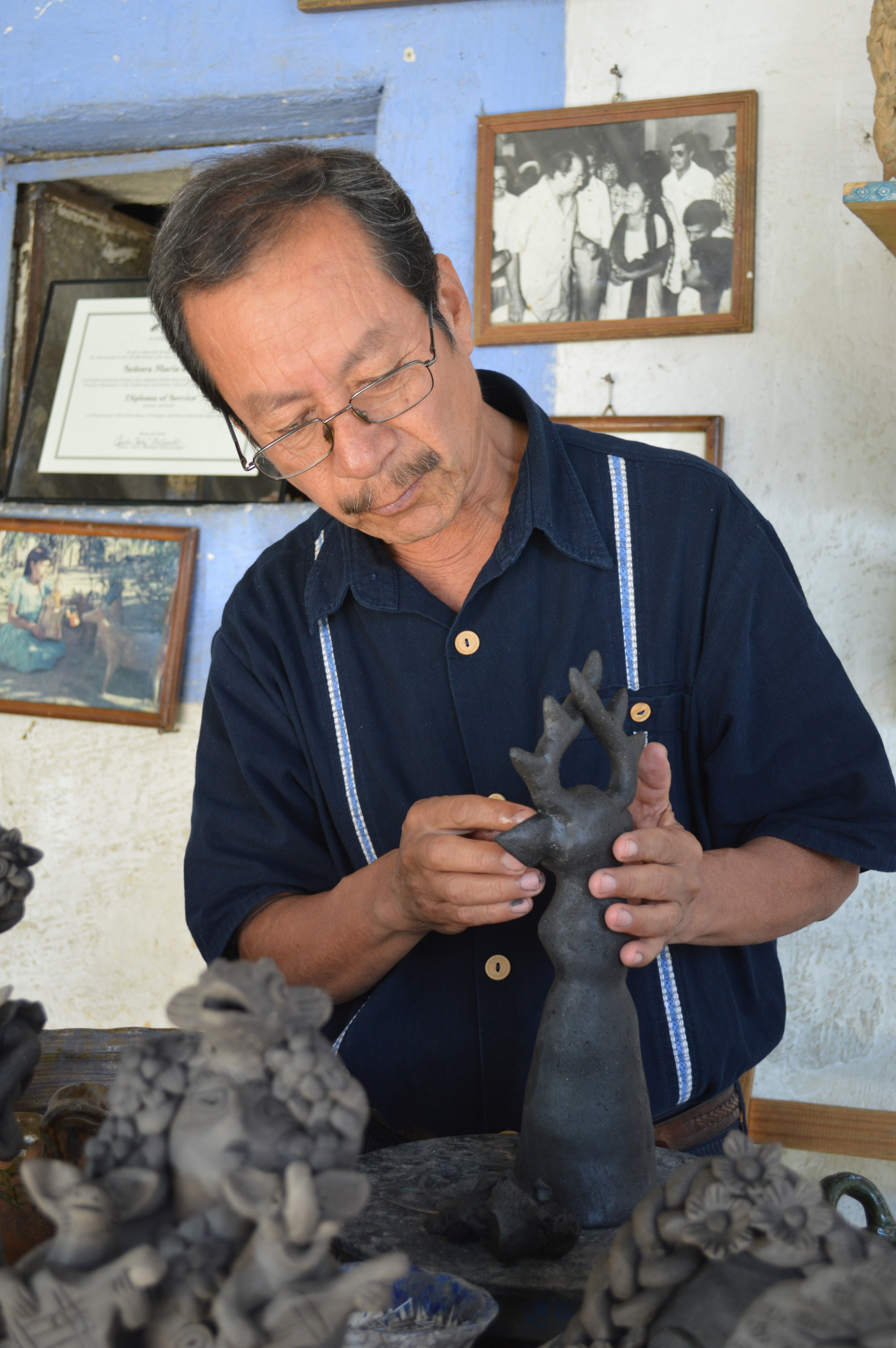 Luis García Blanco molding a piece at the family compound in Santa Maria Atzompa, Oaxaca, Mexico